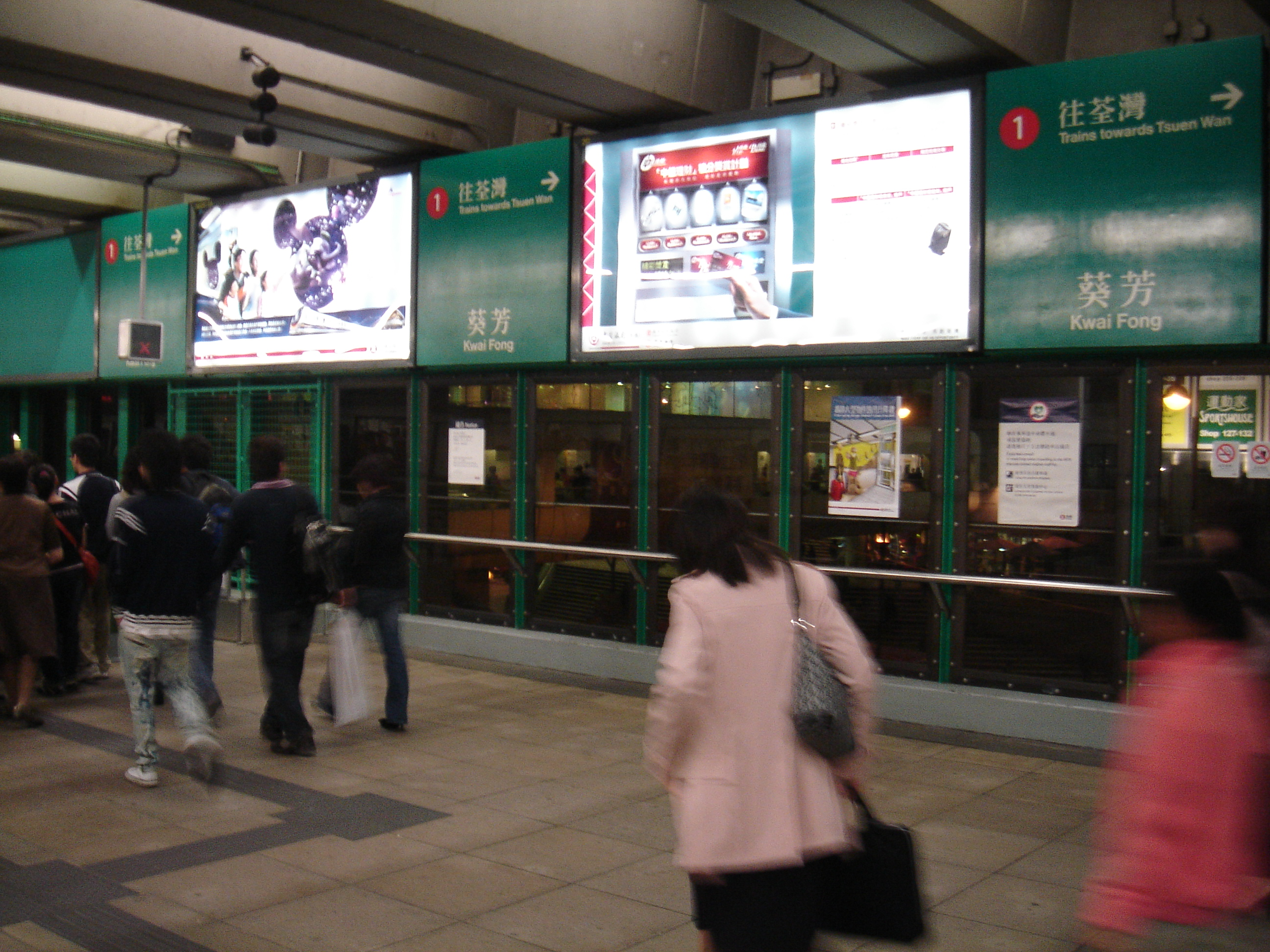 MTR Kwai Fong Station platform中文（香港）: 港鐵葵芳站月台